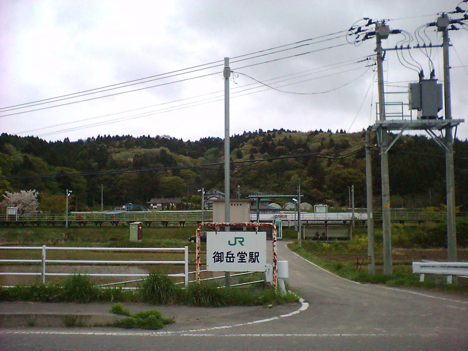 Mitakedou train station in Tome, Miyagi.